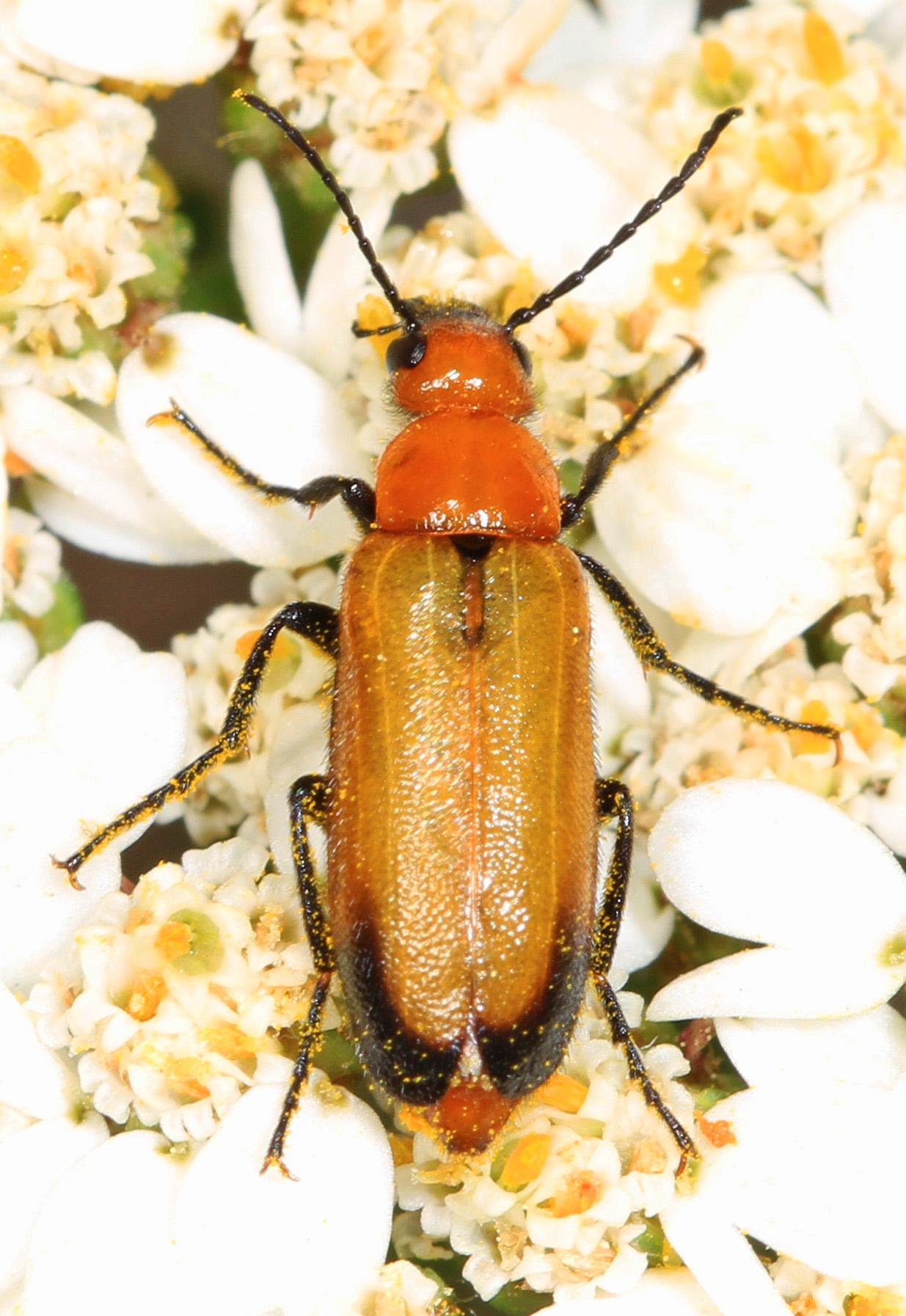 Blister Beetle - Nemognatha cribraria, Yuba Pass, California.